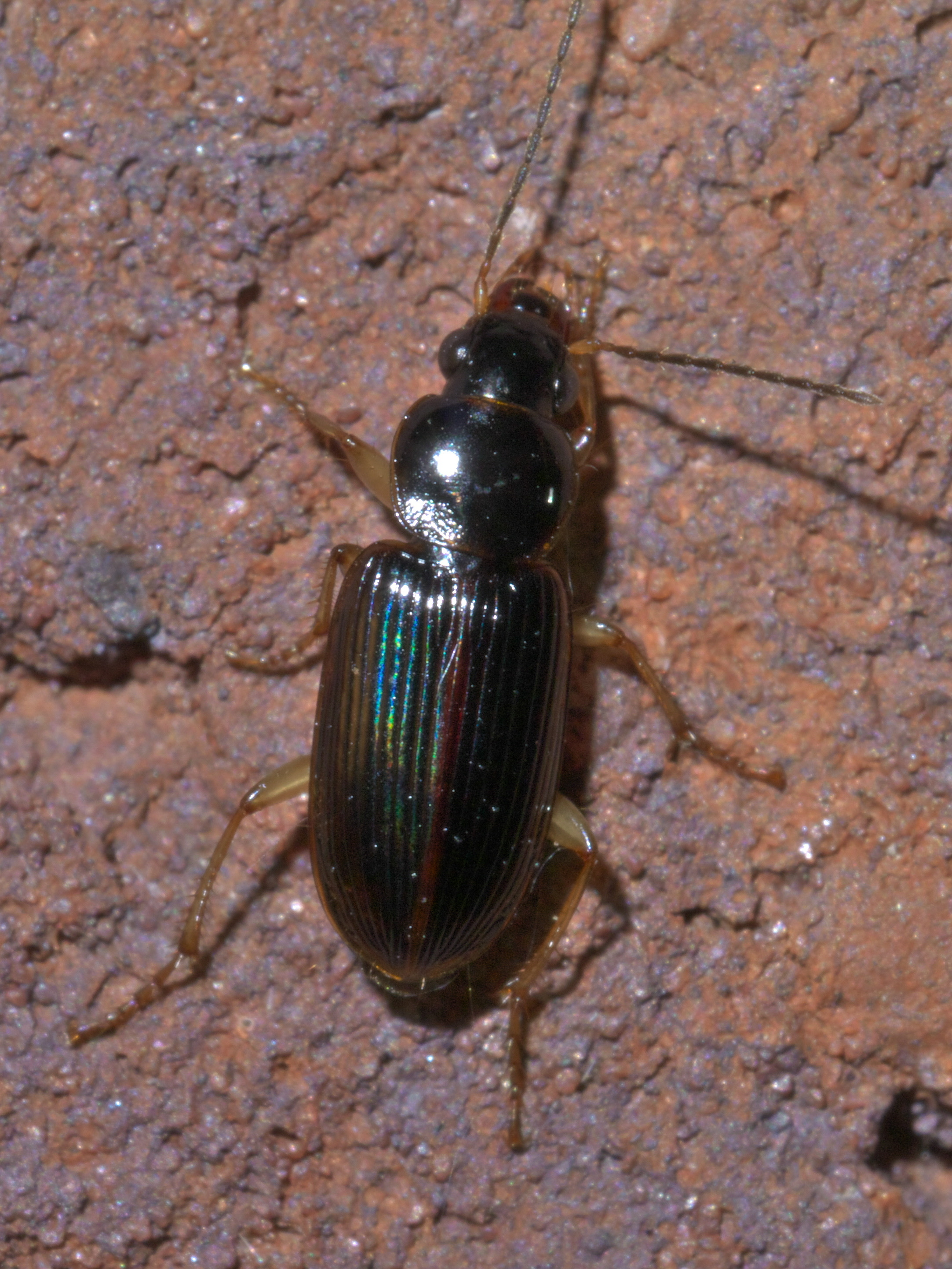 Stenolophus ochropezus, Genus: Seedcorn Beetles, Size: 6.2 mm, ID Confidence: 88